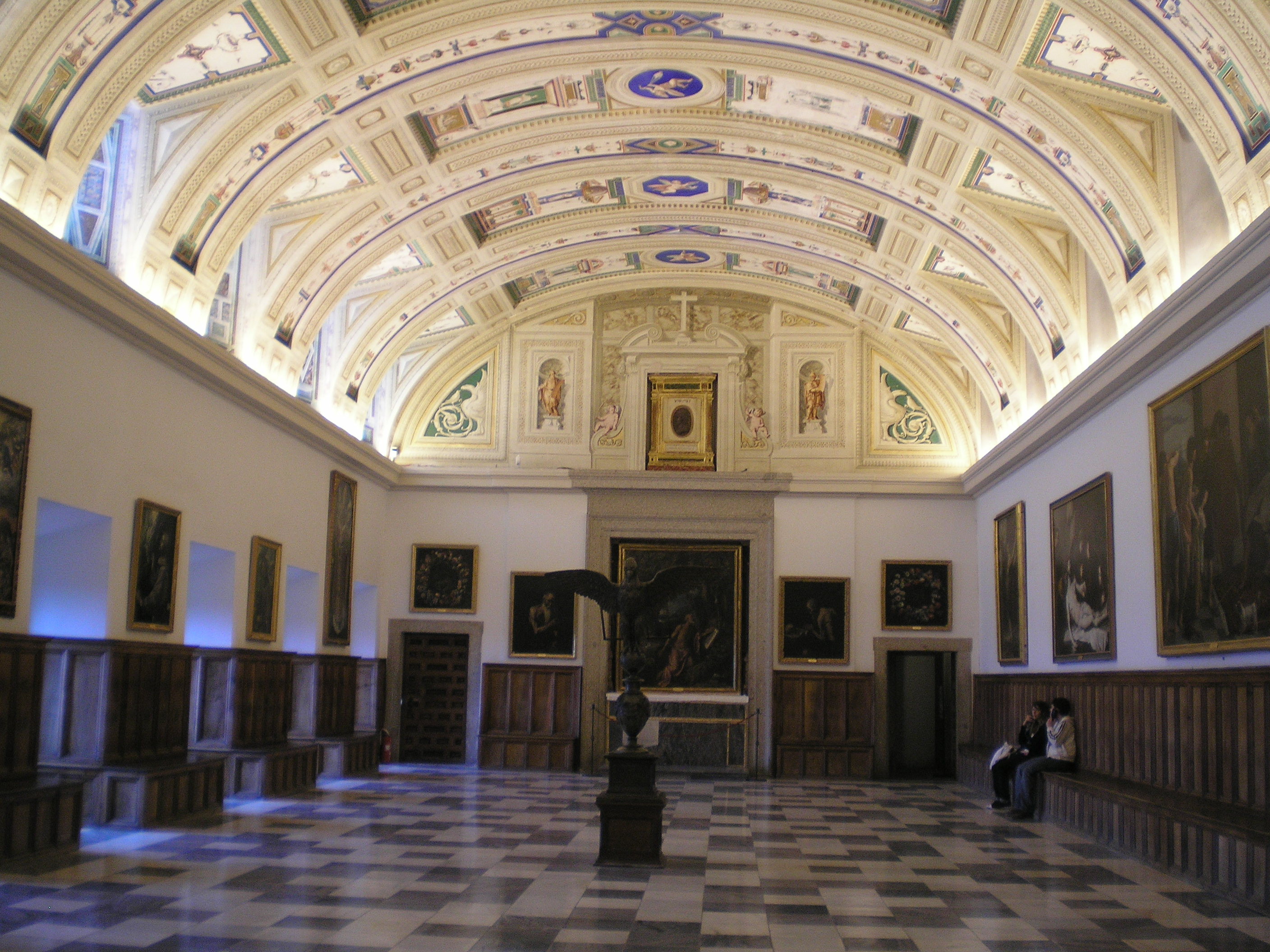 Sala Vicarial in Monastery of San Lorenzo de El Escorial.